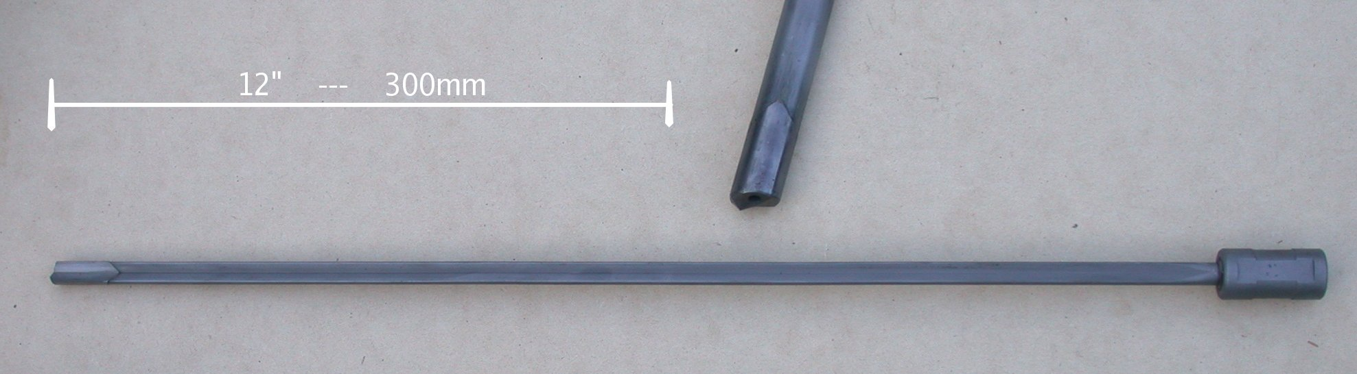 Two gun drills, the tip of one (at the top) and a full length shot of another, the scale shows a length of 12 inches or 300mm. For another close up